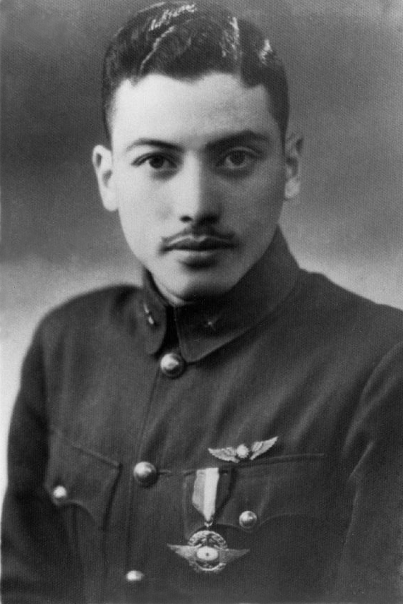 Major Arthur Chin Shui-Tin, America's First WWII Ace.